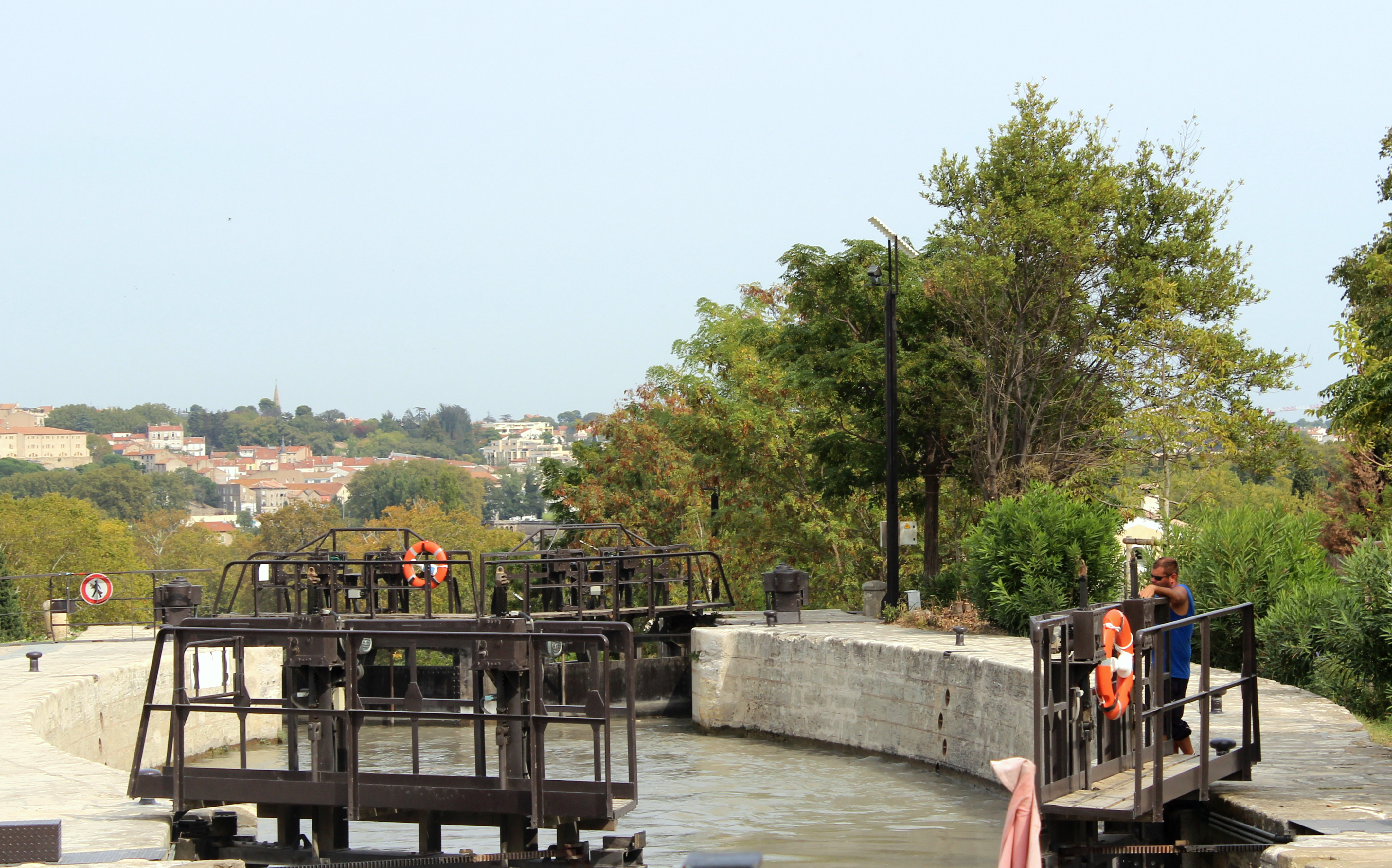 Oval chambers on the 304 metre long Fonserannes flight of locks. The oval shape absorbs the horizontal stress on the lock wall caused by the earth behind the chamber wall in much the same way as the arch of a bridge absorbs the vertical stresses caused by the bridge superstructure.